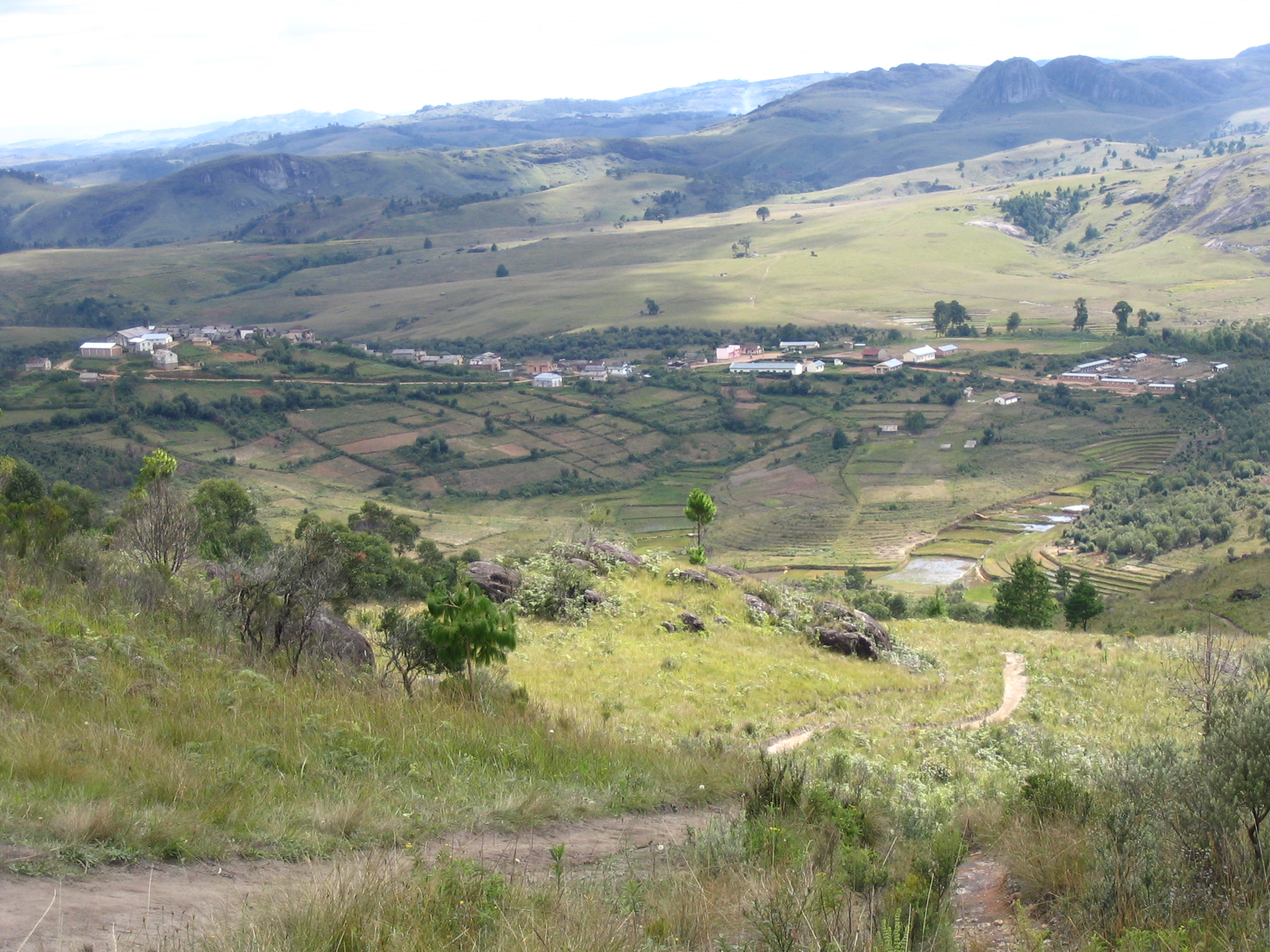 Antoetra